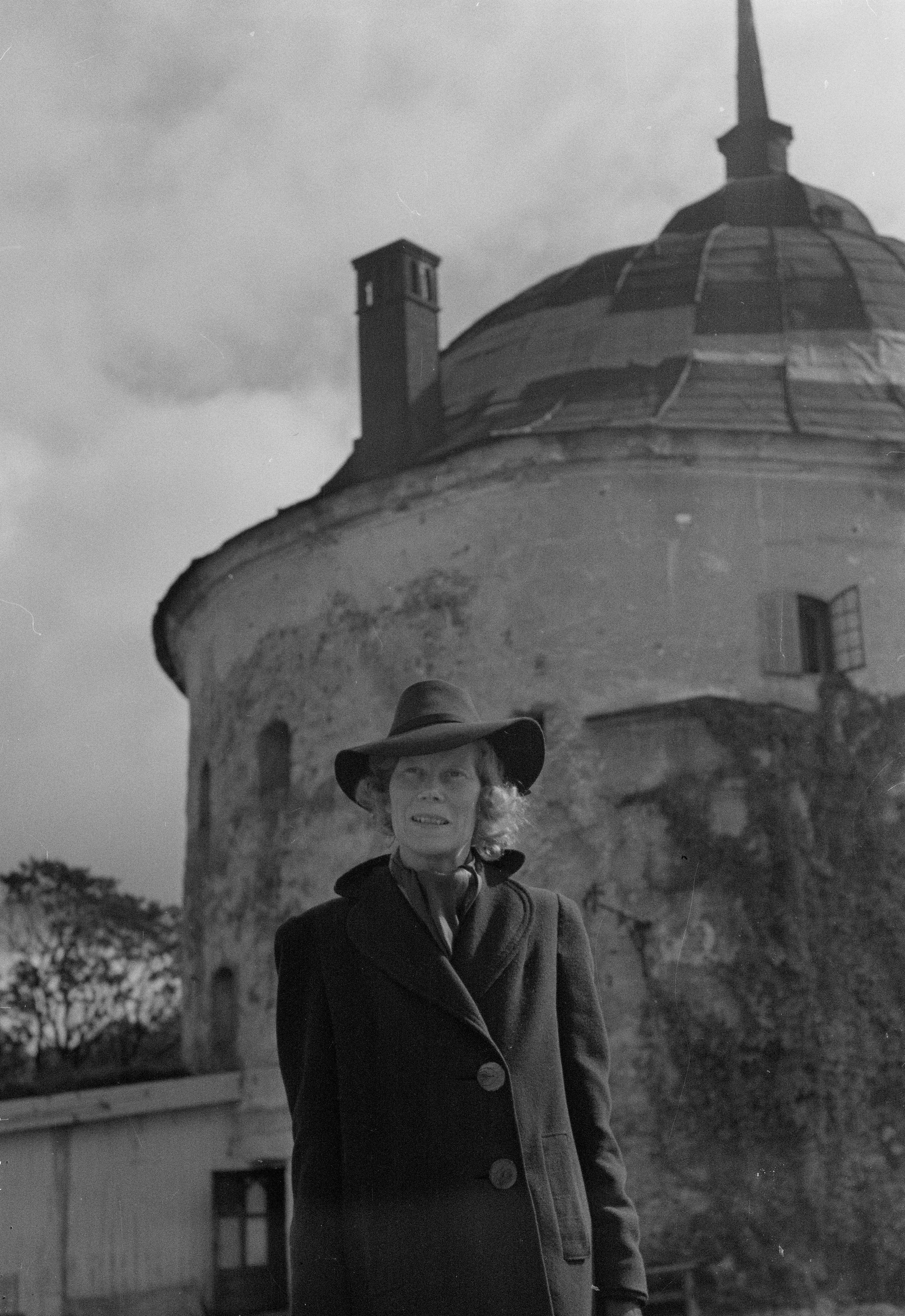 Photograph of the Finnish writer Lempi Jääskeläinen (1900–1964).